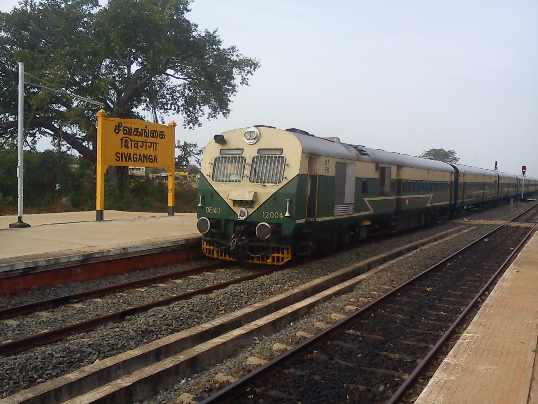 DEMU in Sivagangai